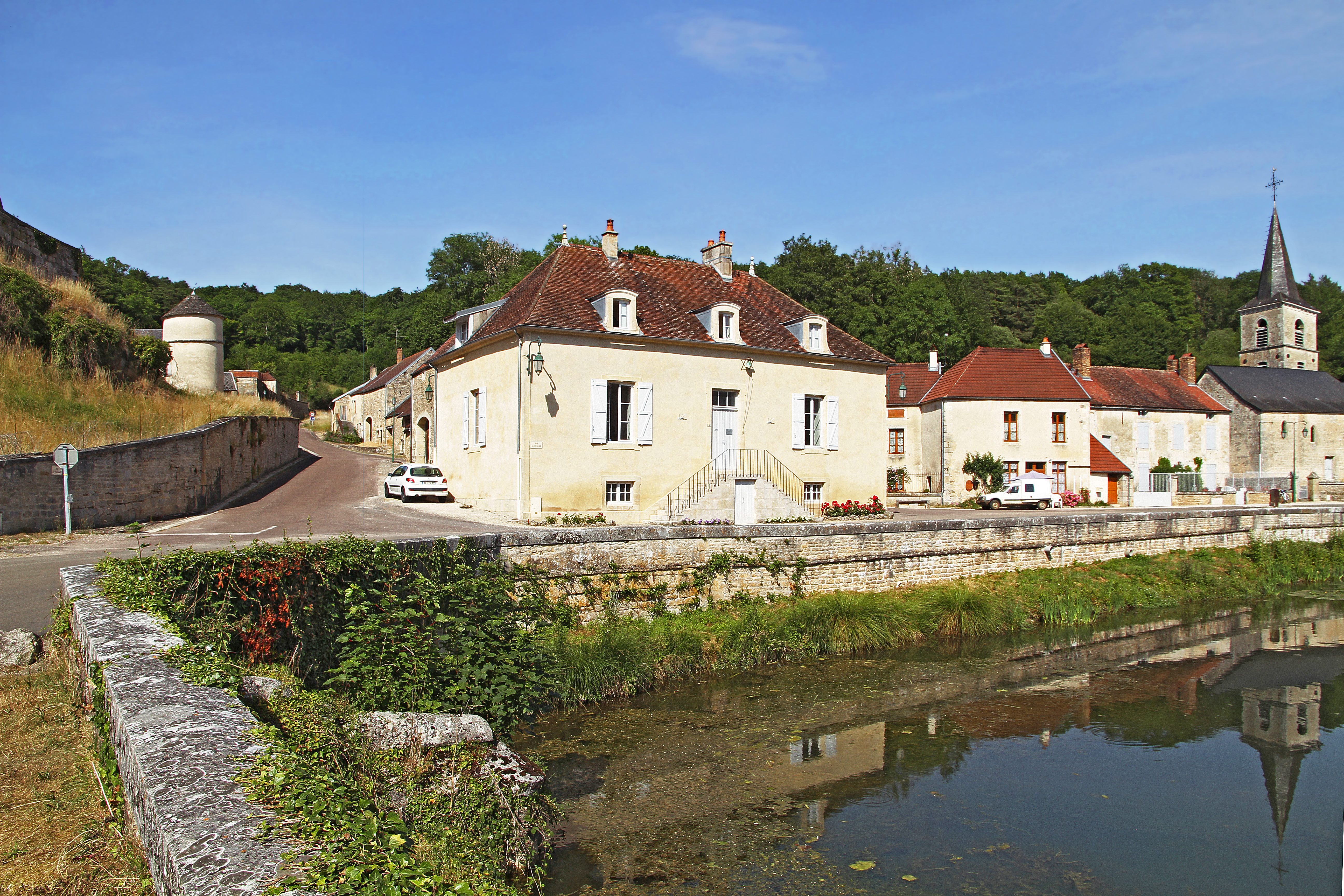 Townhall of Rochefort-sur-Brévon